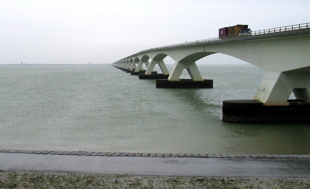 Zeeland Bridge